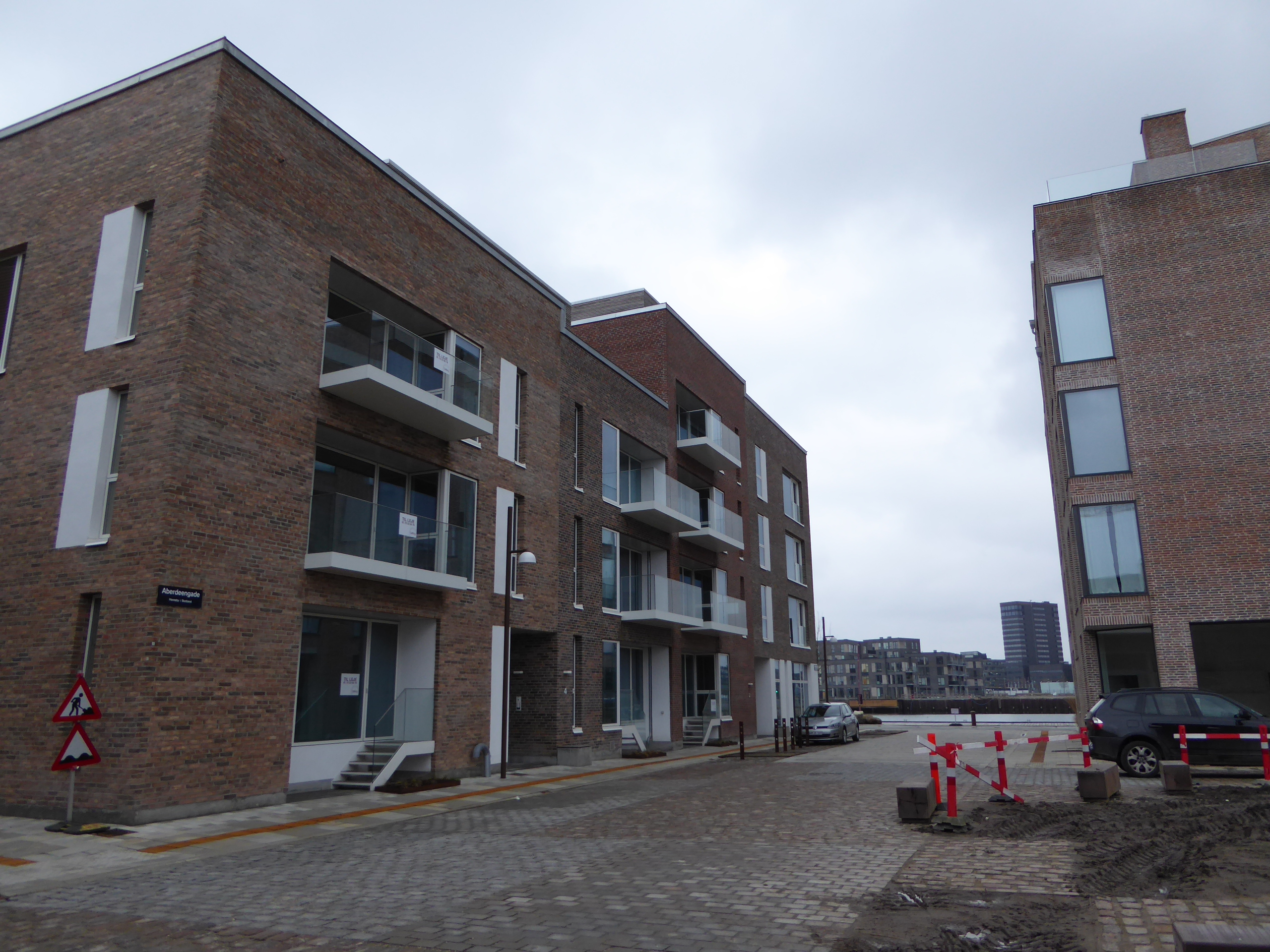 The street Aberdeengade in Nordhavn in Copenhagen.